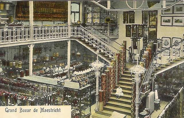 Maastricht, the Netherlands. Interior of former department store Grand Bazar at Kersenmarkt / Kleine Staat. Postcard, ca 1910.